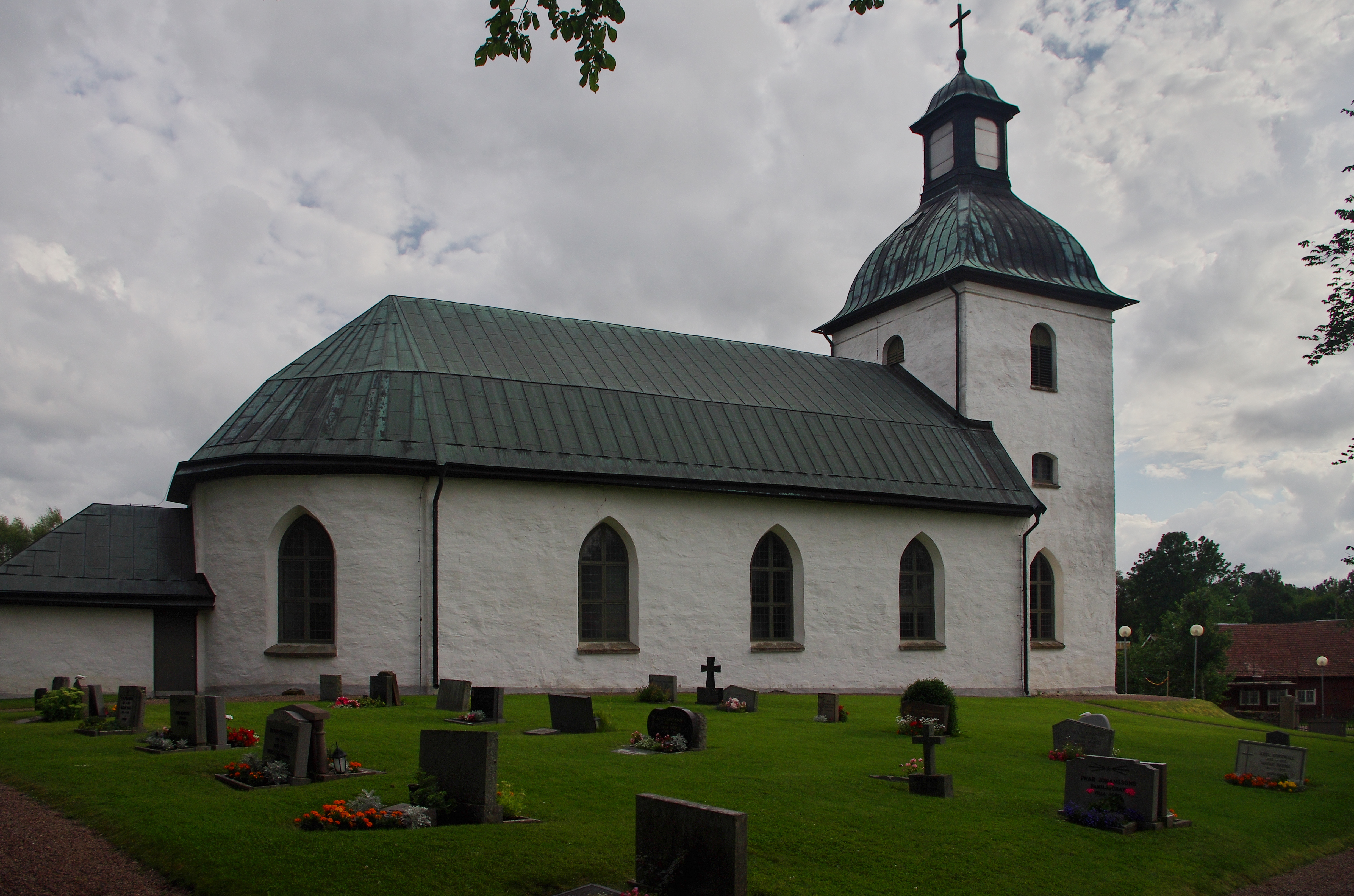 Skärvs kyrka (english:Skärv church) in Västergötland and Skara municipality in Västragötaland county, Sweden.